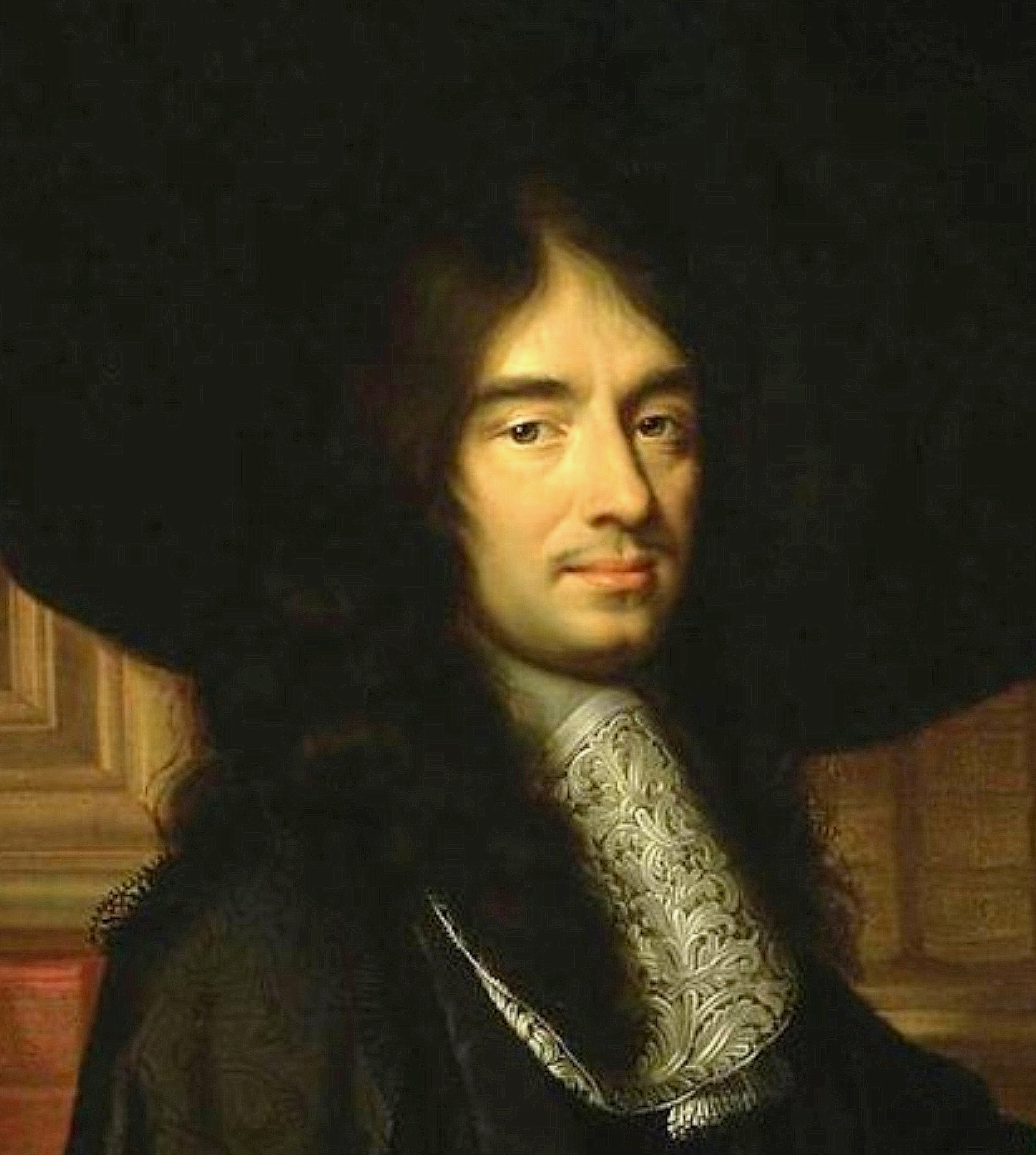 Detail from a portrait of Charles Perrault (1628-1703), a French architect (oil on canvas; 1.34 x 1.00 m). Lallemand presented this portrait on 13 May 1672, along with his Portrait of Gédéon Berbier du Mets, in order to gain admittance to the Academy. The names of the sitters were communicated to him on 25 April 1671, so the painting dates to this period. Lallemand worked from a 1665 painting of Charles Perrault by Charles Le Brun (engraved by Étienne Baudet in 1675).